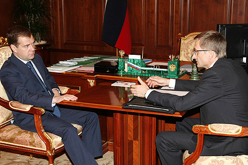 THE KREMLIN, MOSCOW. With Nikolai Levichev, leader of the Fair Russia (Spravedlivaya Rossiya) faction in the State Duma.